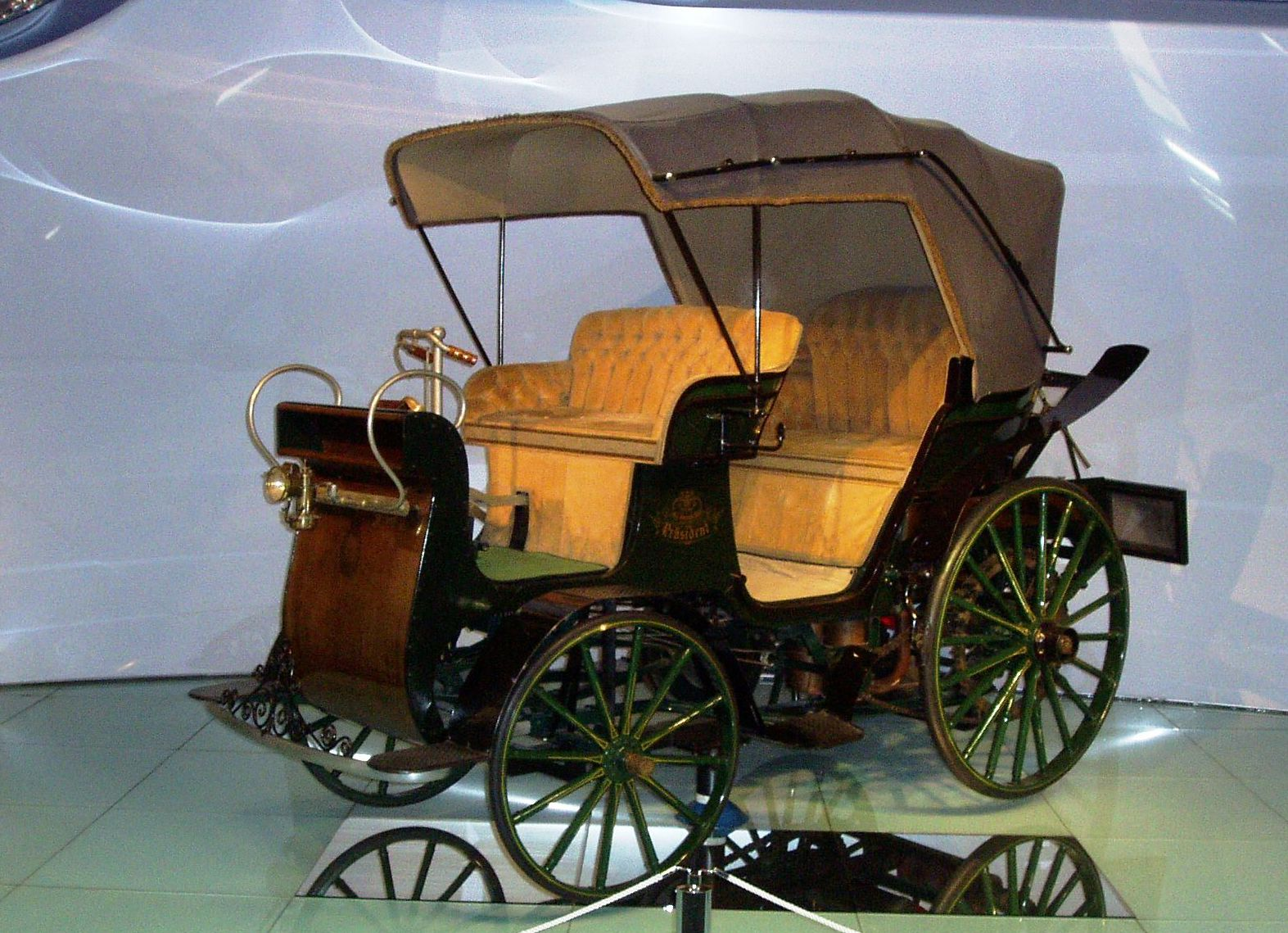 Präsident - replica from 1977 Photo: O. Ertl (2006), Factory Museum Tatra Kopřivnice